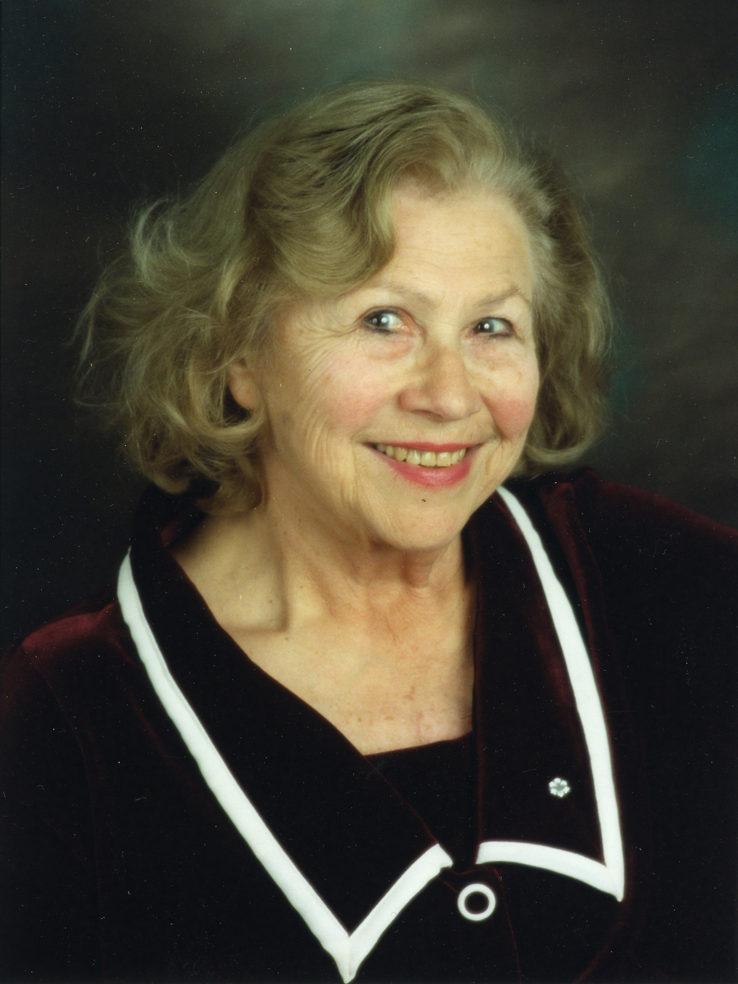 Photographic portrait of Ellen Burka, figure skater and coach